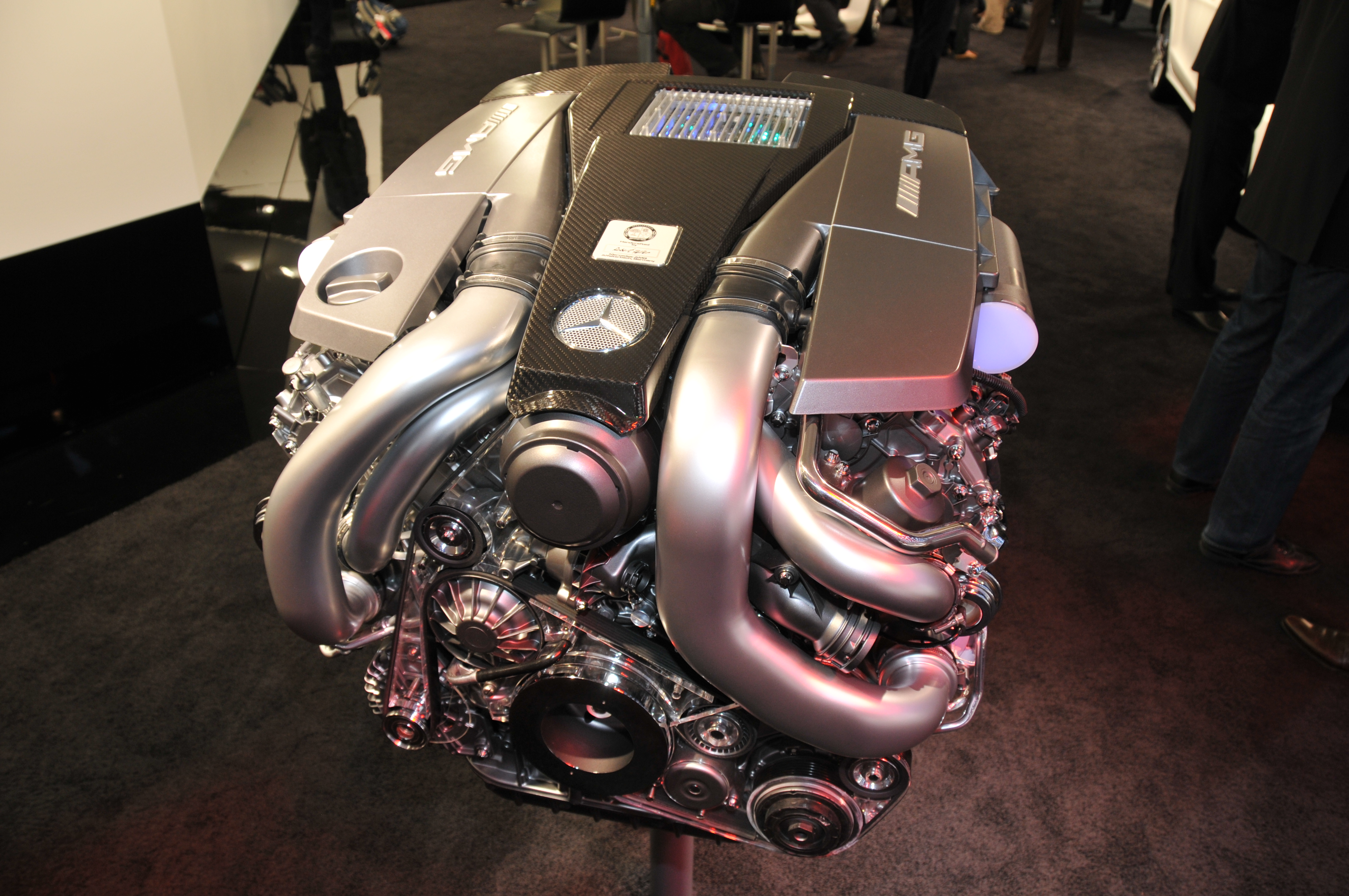 AMG engine at Geneva Motor Show